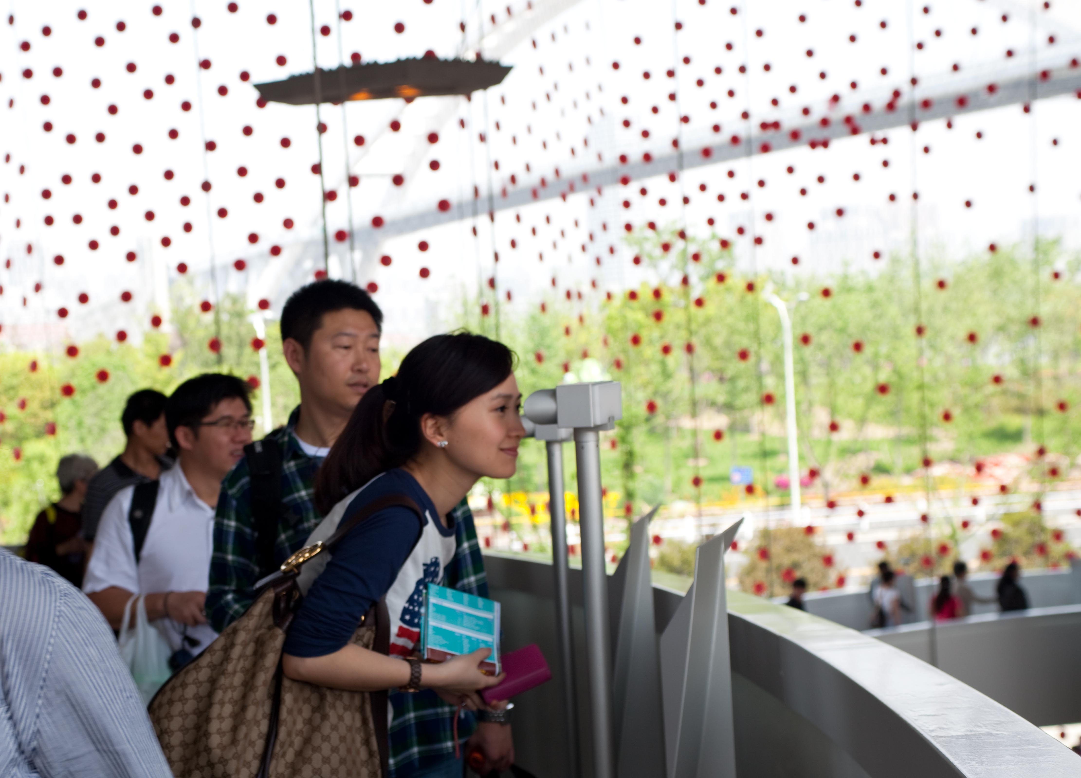 Swiss Pavilion Expo 2010 Shanghai: Lady looks through binoculars. In the back the interactive intelligent façade